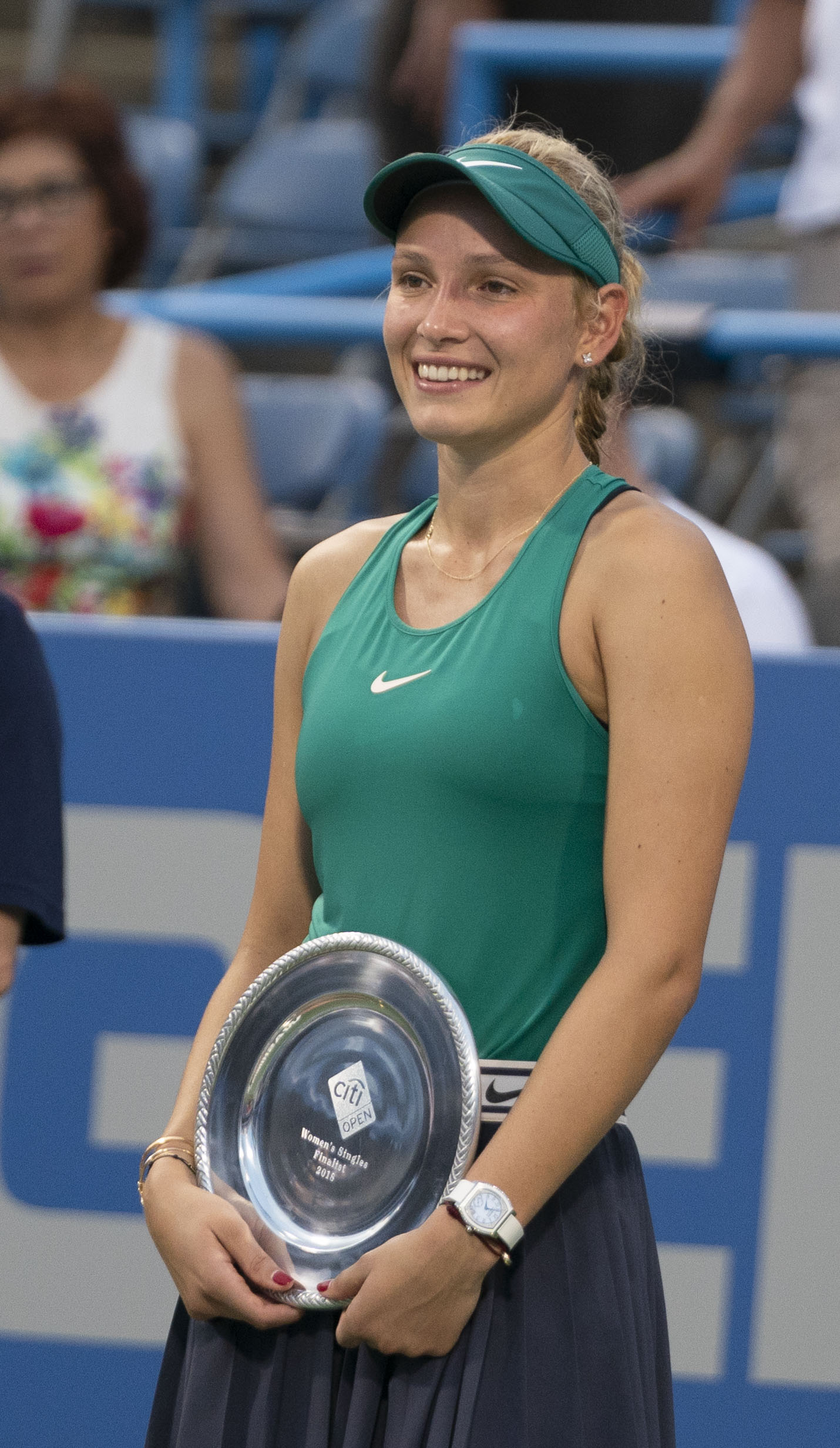 2018 Citi Open Tennis Finals